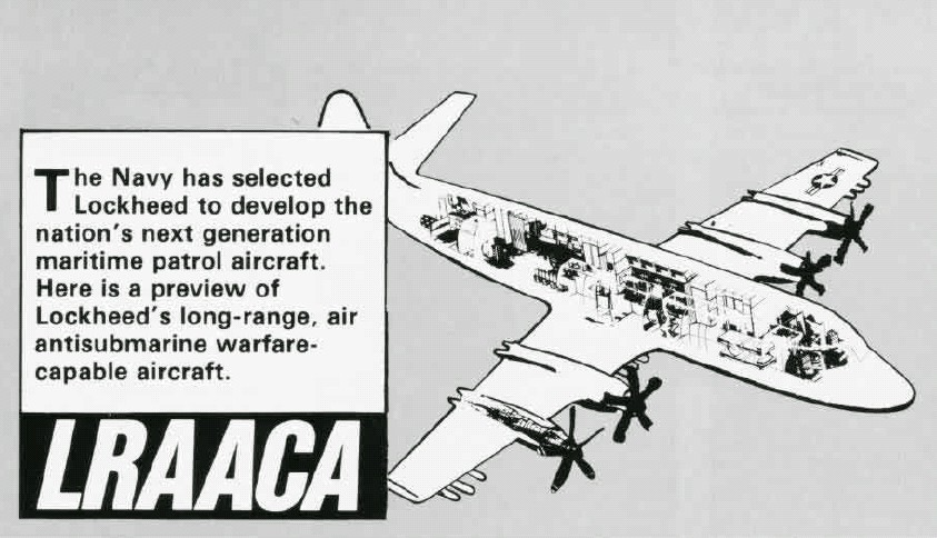 A drawing of the planned Lockheed P-7A patrol plane, which was cancelled in 1990.